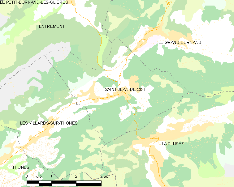 Map of French municipality Saint-Jean-de-Sixt